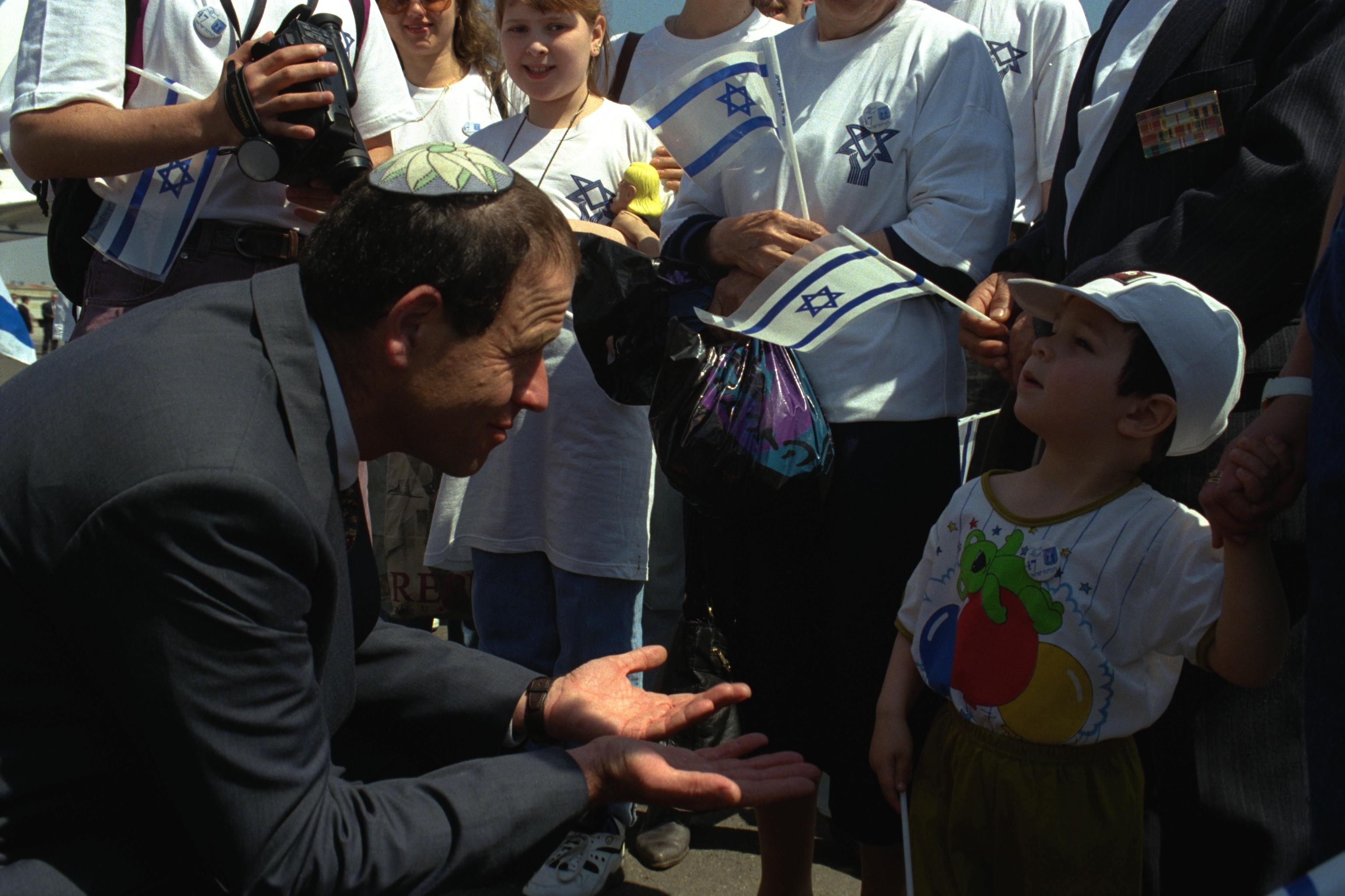 Jewish Agency Chairman Avraham Burg welcomes new Russian immigrants upon their arrival at Ben-Gurion Airport. יור הסוכנות היהודית, אברום בורג, מברך עולים חדשים מרוסיה בשדה התעופה בן גוריון Photo: Yaakov Saar (1951–) Alternative names SA'AR YA'ACOV; Jacob Saar; Saʻar, YaʻaḳovDescriptionIsraeli photographerDate of birth 1951 Authority control : Q28751896 VIAF: 298161188 NLI: 001394176 creator QS:P170,Q28751896 , 05/10/1995